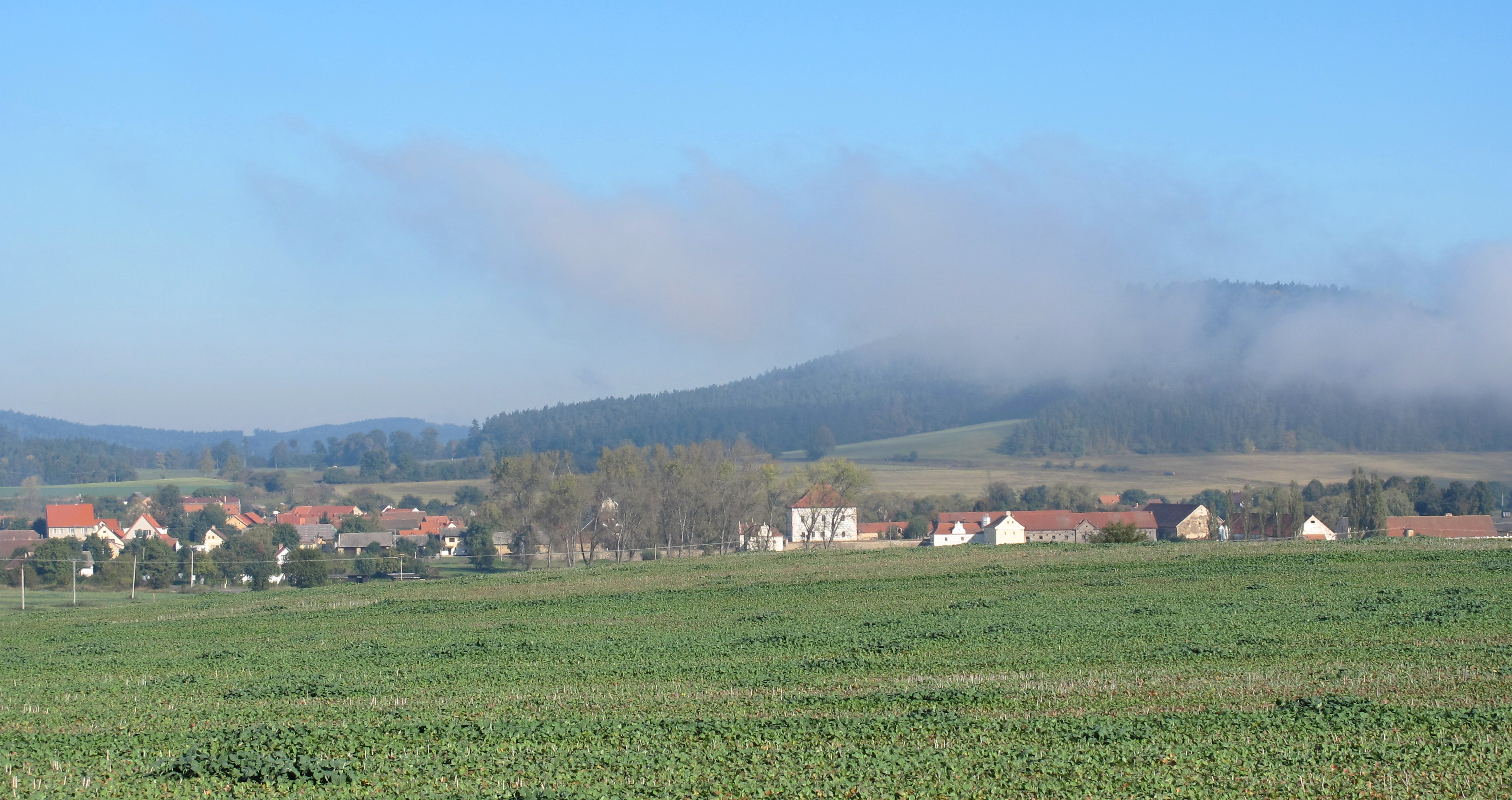 Křepenice, Příbram District in Czech Republic Project: Chráněná území.